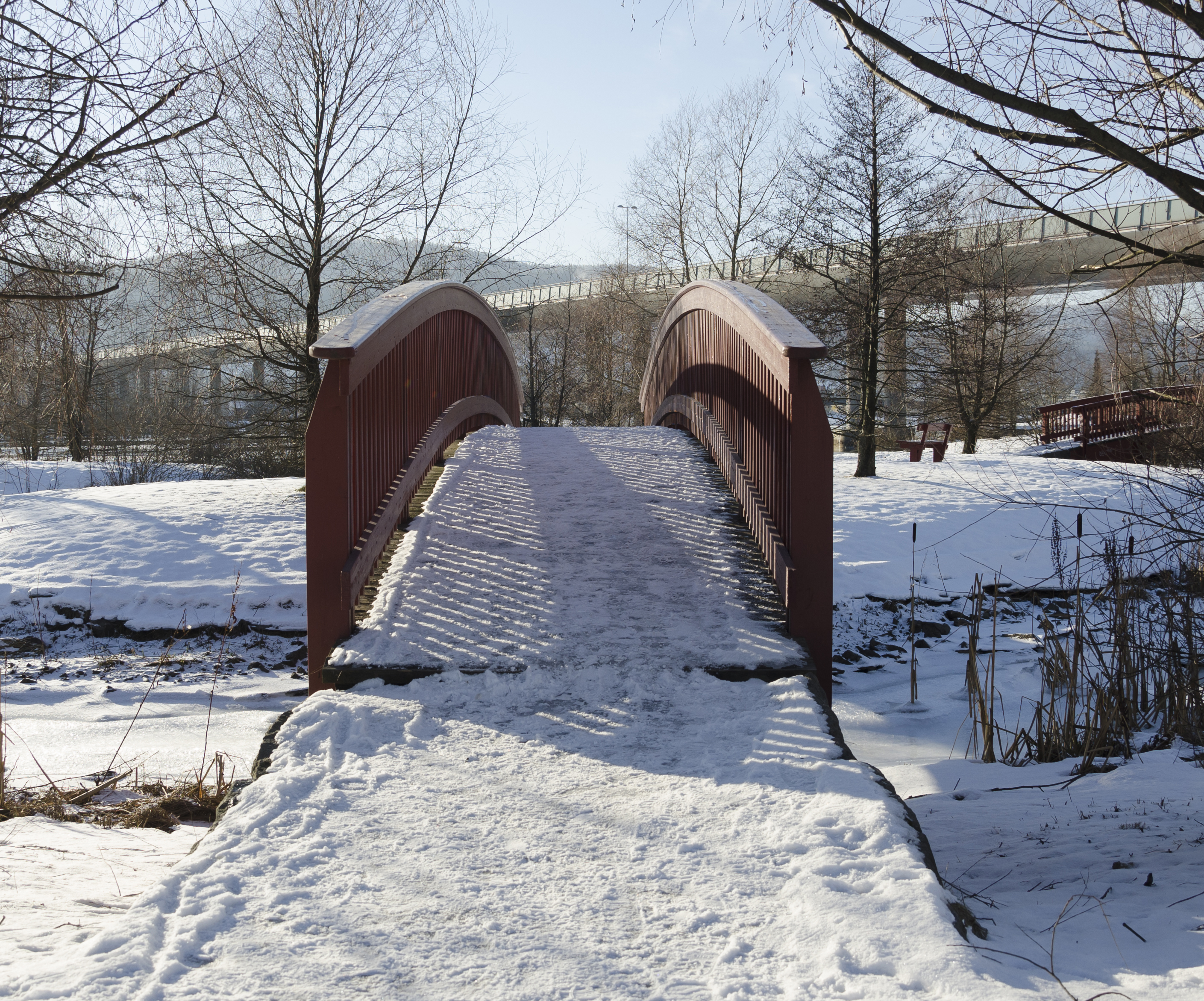 One of two red wooden foot bridges in the Fjord park in Drammen, february 2017. In the background is the Drammen motorway bridge.